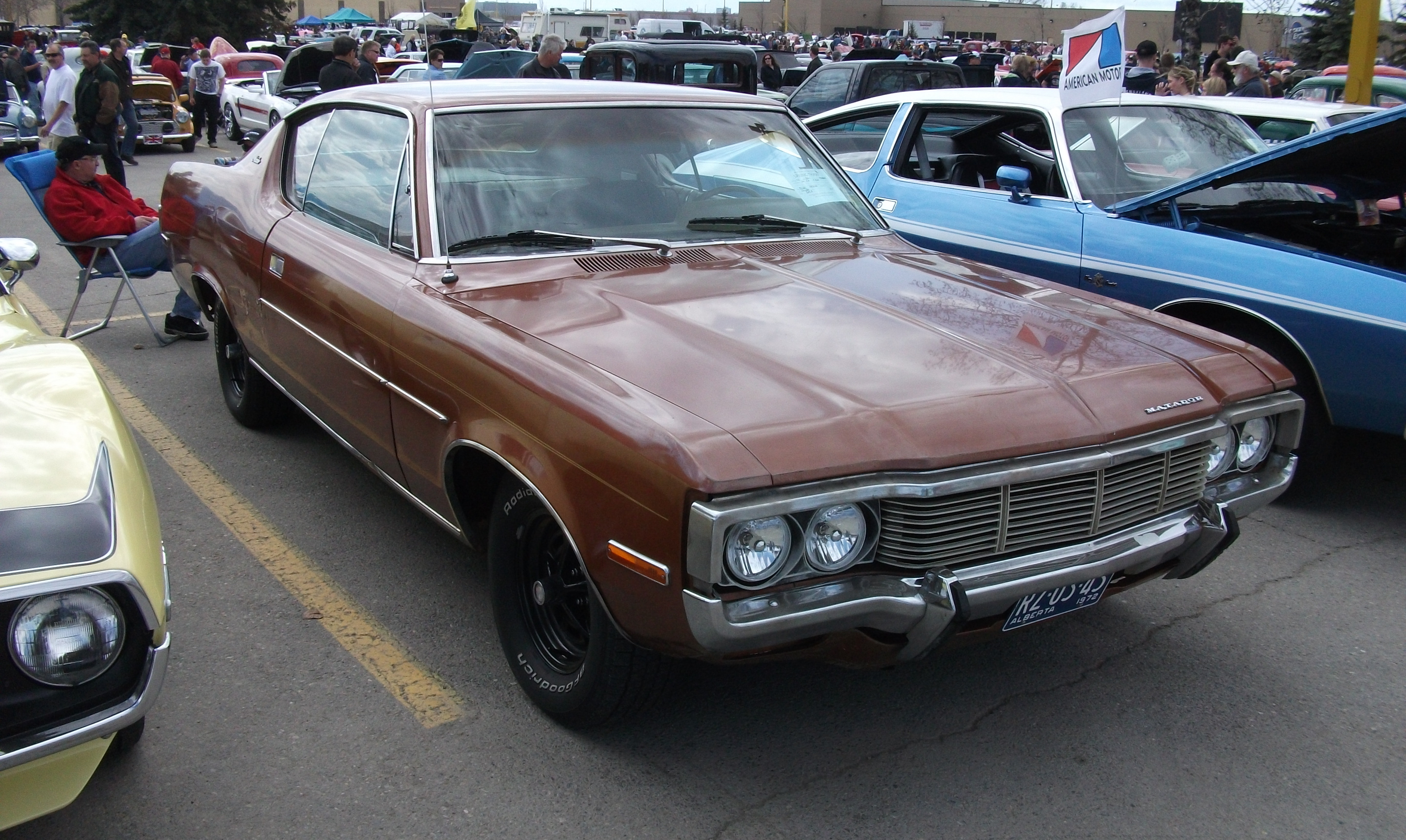 1972 AMC Matador two-door hardtop.